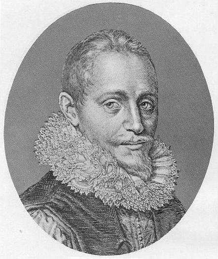 Hugo Grotius